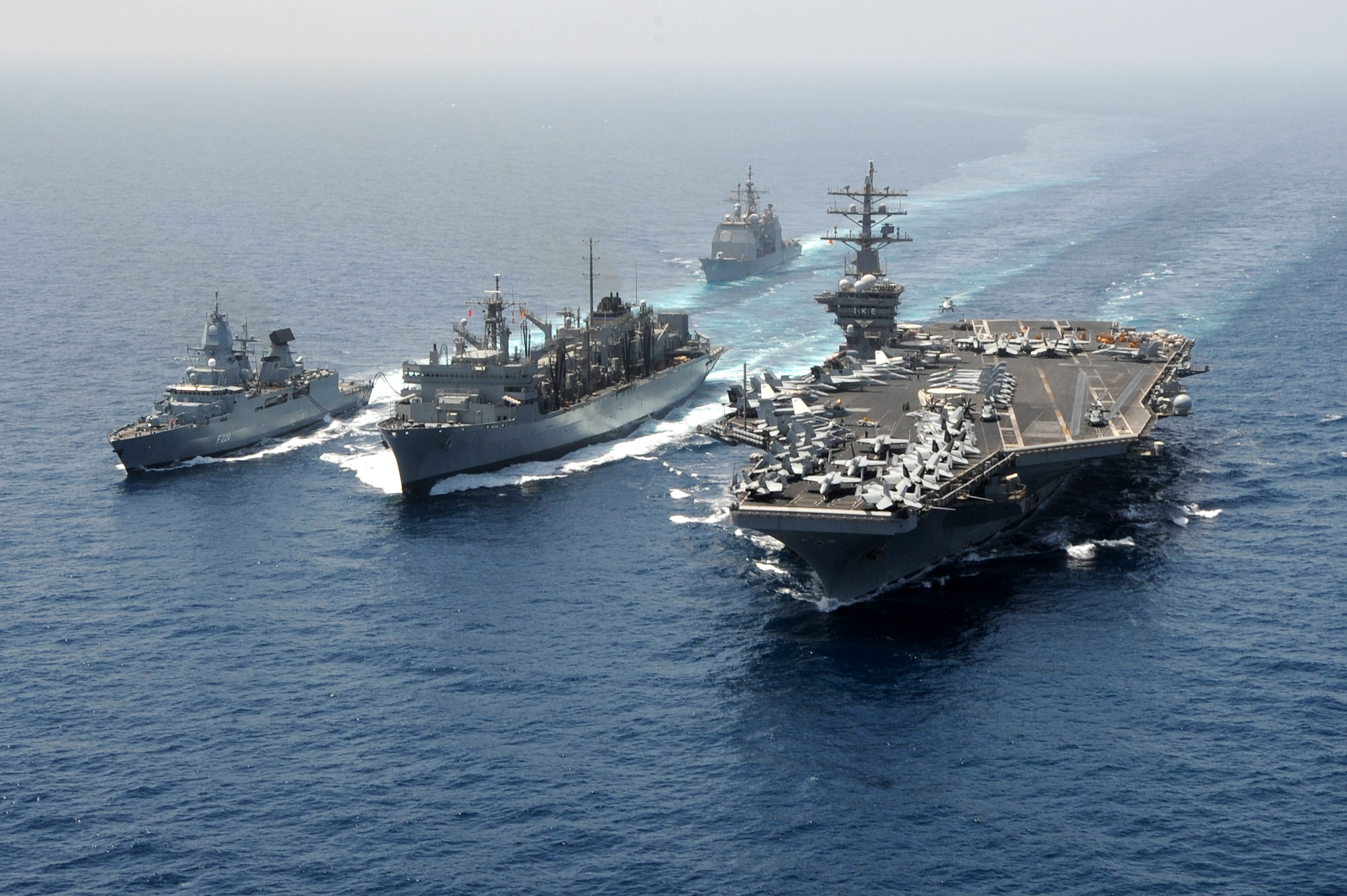 The German navy frigate FGS Hamburg (F220), left, and the aircraft carrier USS Dwight D. Eisenhower (CVN 69), right, take on fuel and stores from the Military Sealift Command fast combat support ship USNS Bridge (T-AOE 10), center, during a replenishment-at-sea in the Arabian Sea on March 23, 2013. The Eisenhower, Hamburg and USS Hue City (CG 66), top, are deployed to the 5th Fleet area of responsibility to conduct maritime security operations and theater security cooperation efforts.